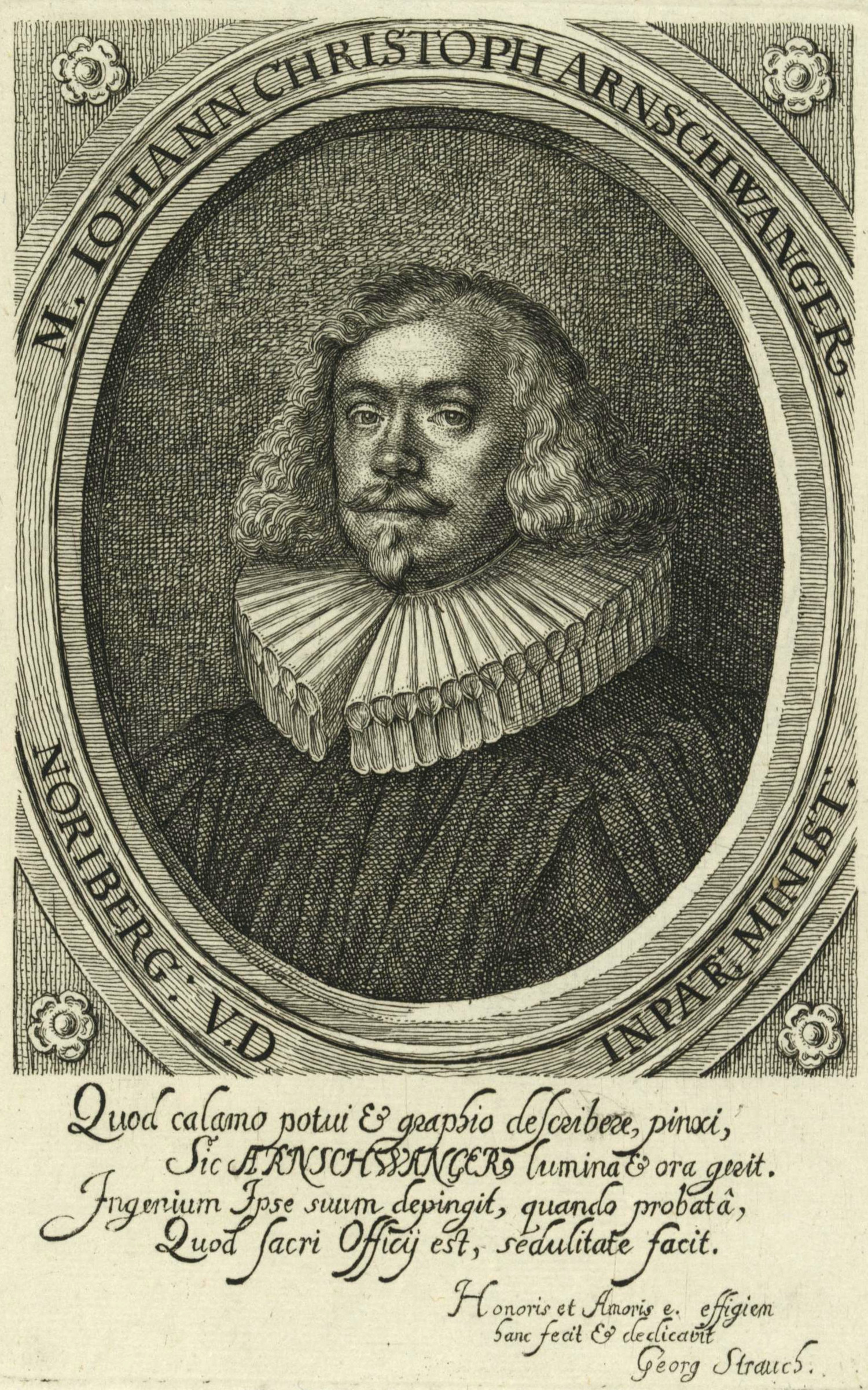 Depicted person: Johann Christoph Arnschwanger